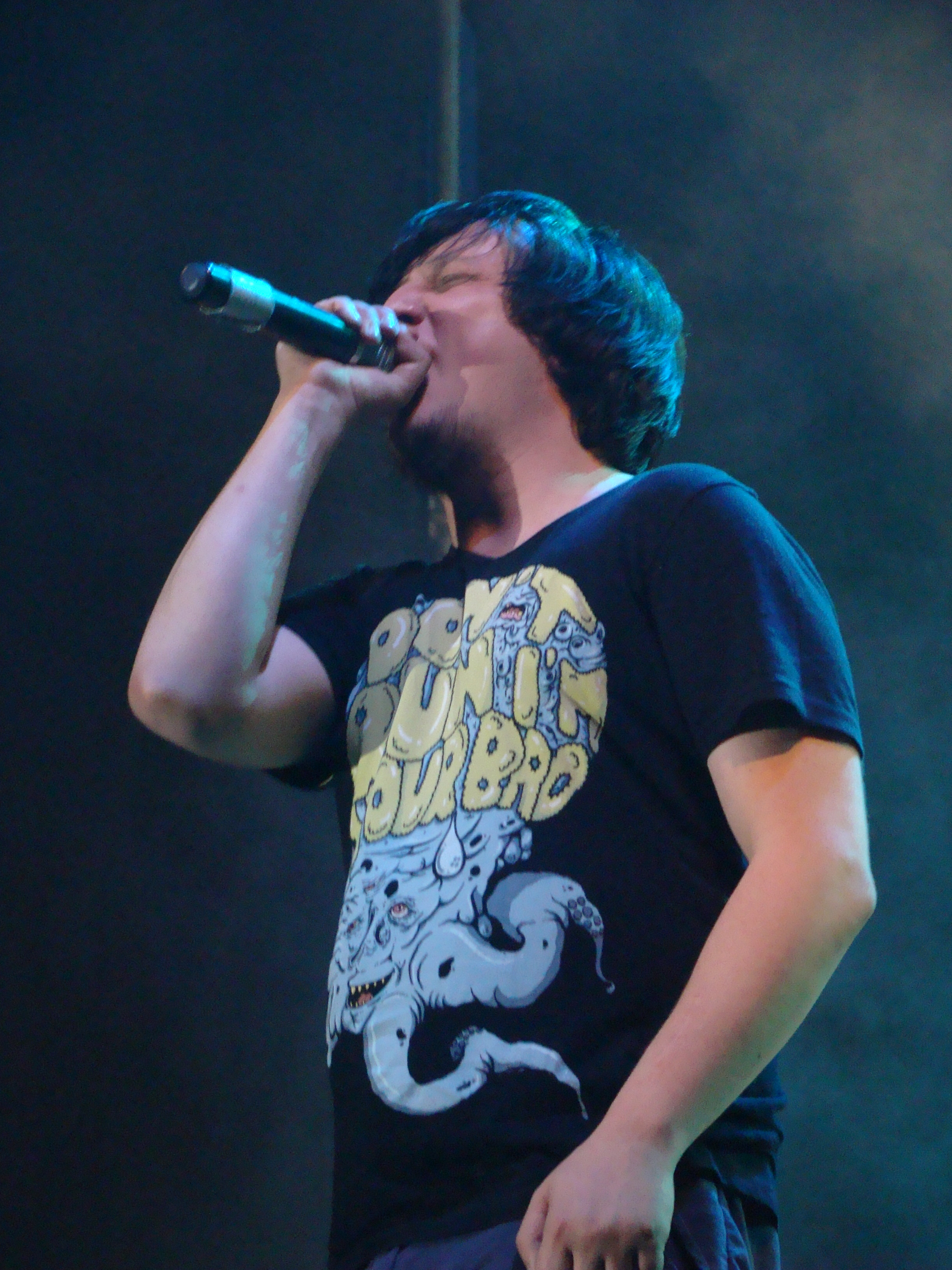 Viktor Novosjolov, vocalist of "ANNA" (during the Fort.Missia festival 2011).